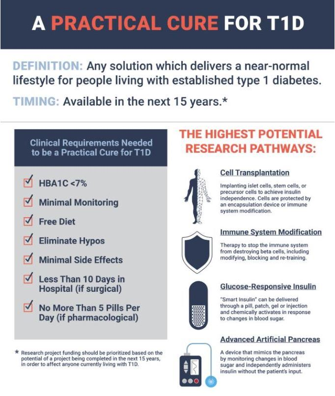 The Juvenile Diabetes Cure Alliance defines a Practical Cure for type 1 diabetes as, "any solution which delivers a near-normal lifestyle for people living with established t1d"